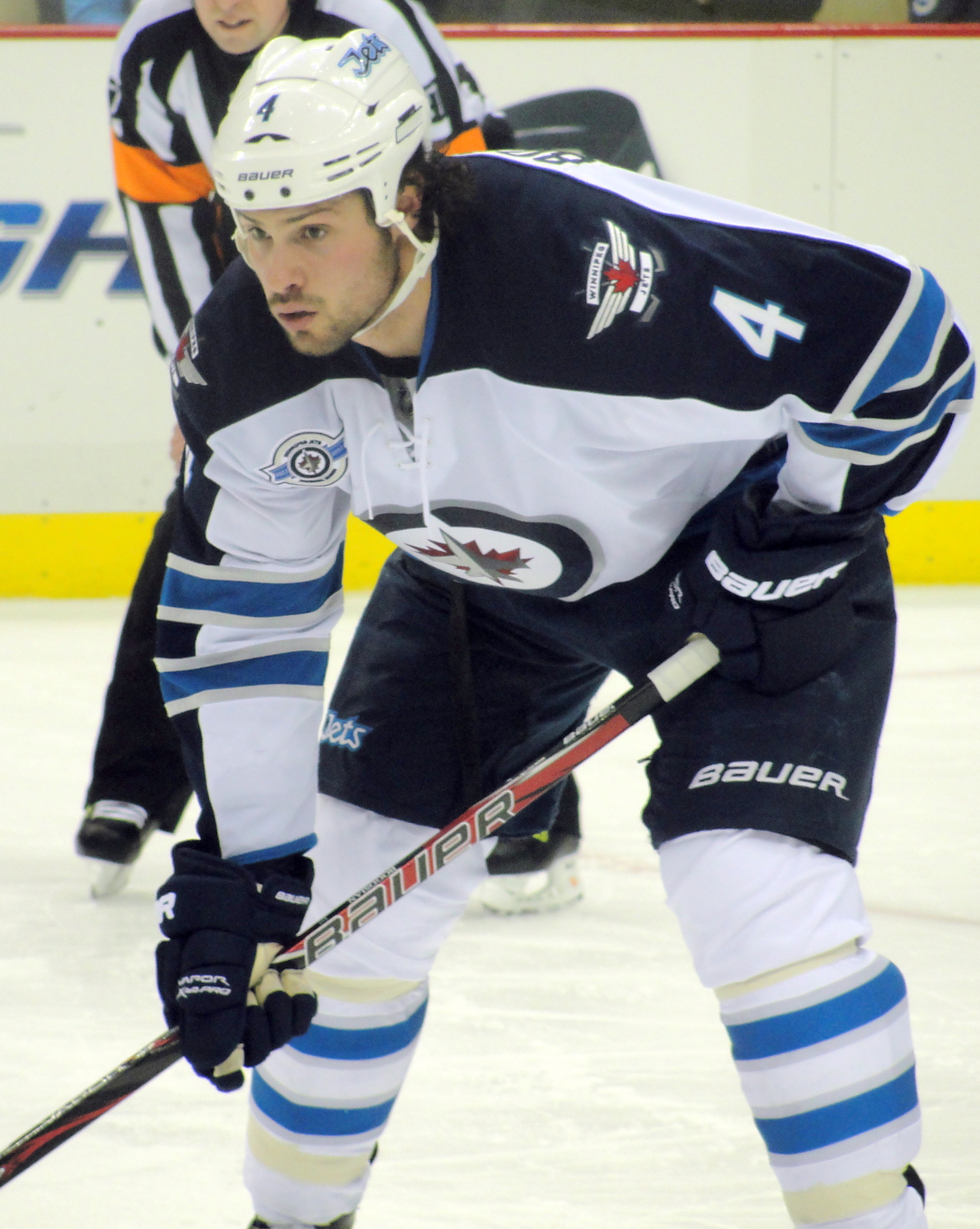 Zach Bogosian of the Winnepeg Jets during a game against the Pittsburgh Penguins, February 11, 2012 at Consol Energy Center in Pittsburgh, PA.